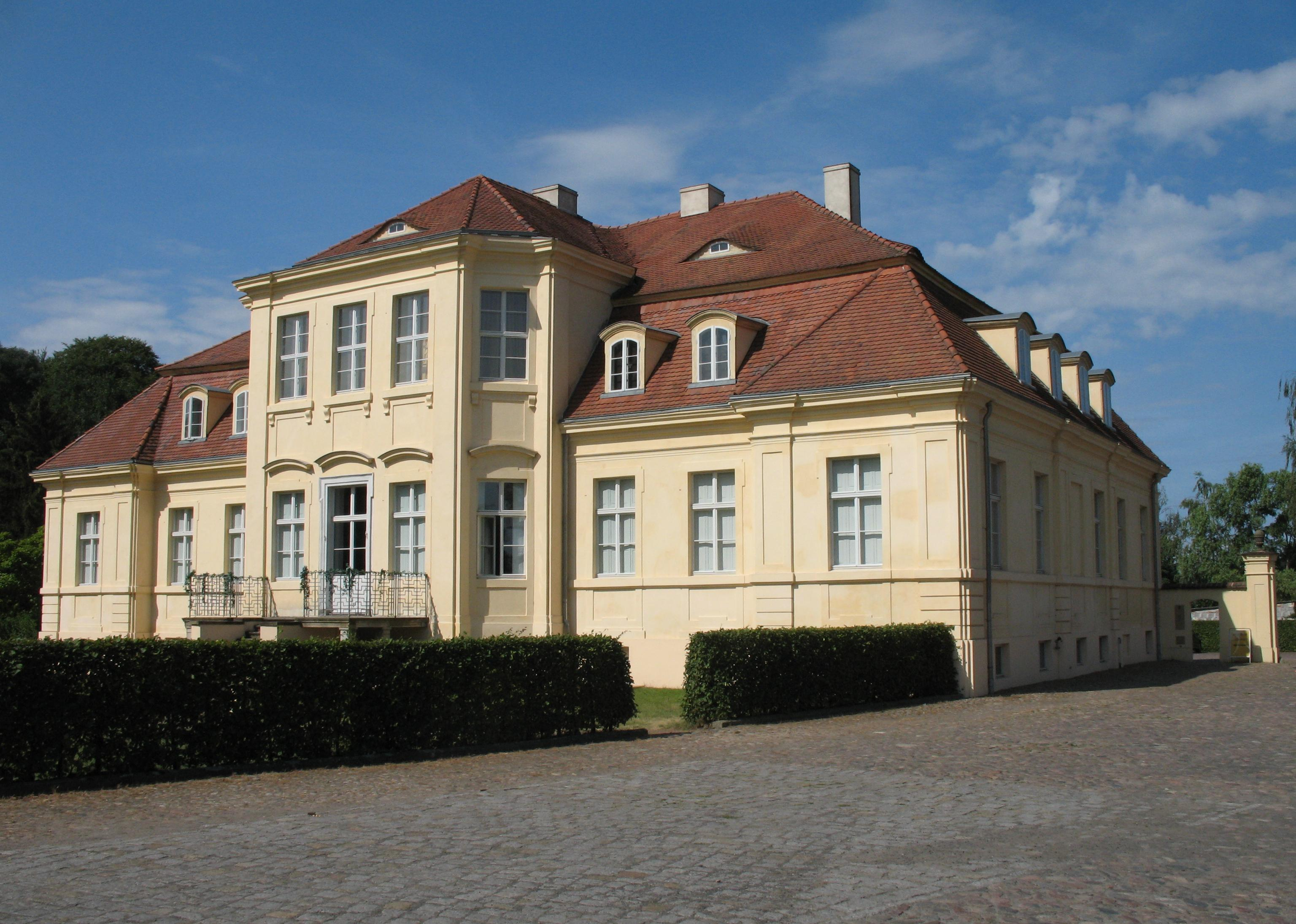 Manor house in Reckahn in Brandenburg, Germany